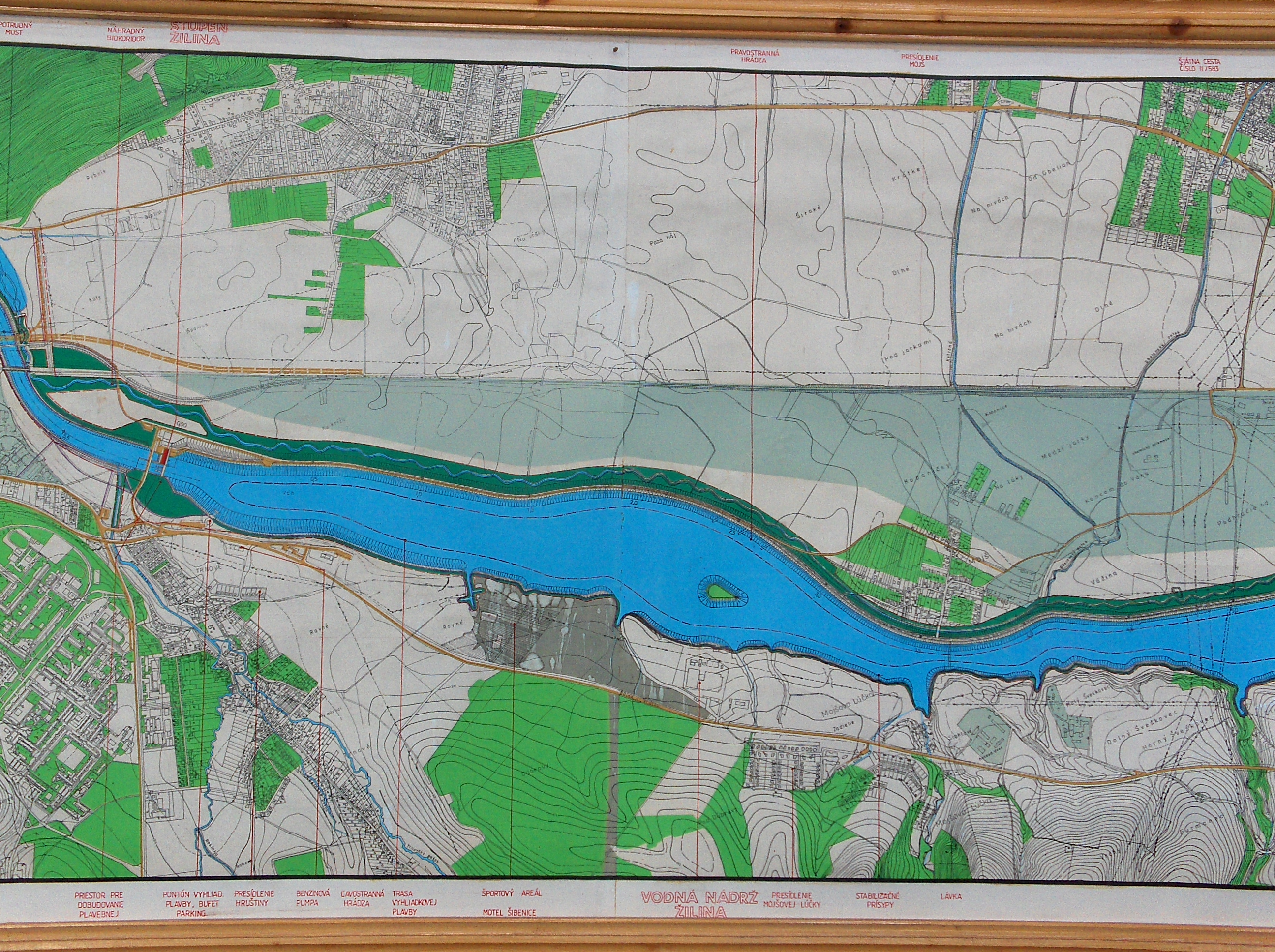 Water power plant Zilina (SVK) map